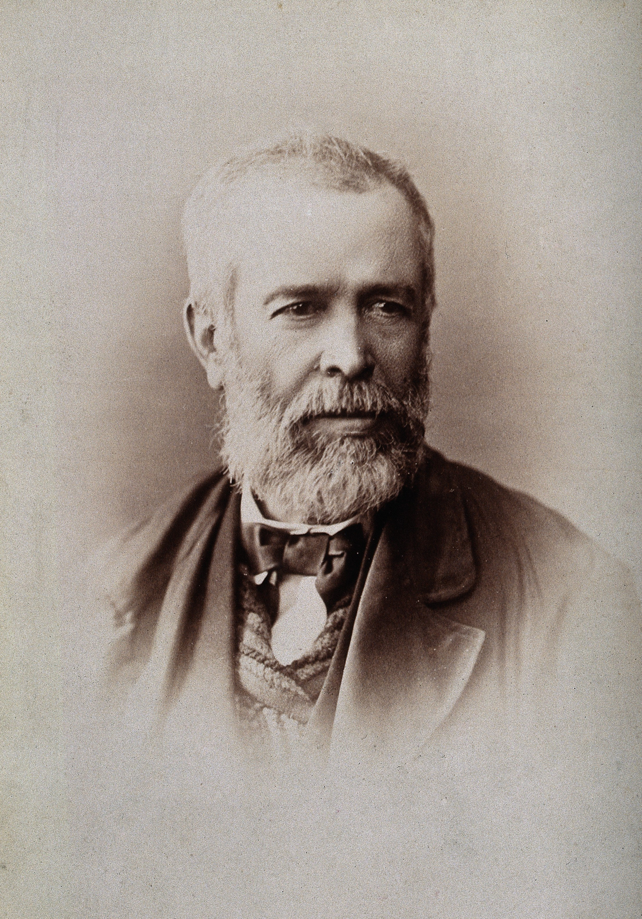 Rafael Lucio. Photograph by Cruces y Cia. Iconographic Collections Keywords: portrait photographs